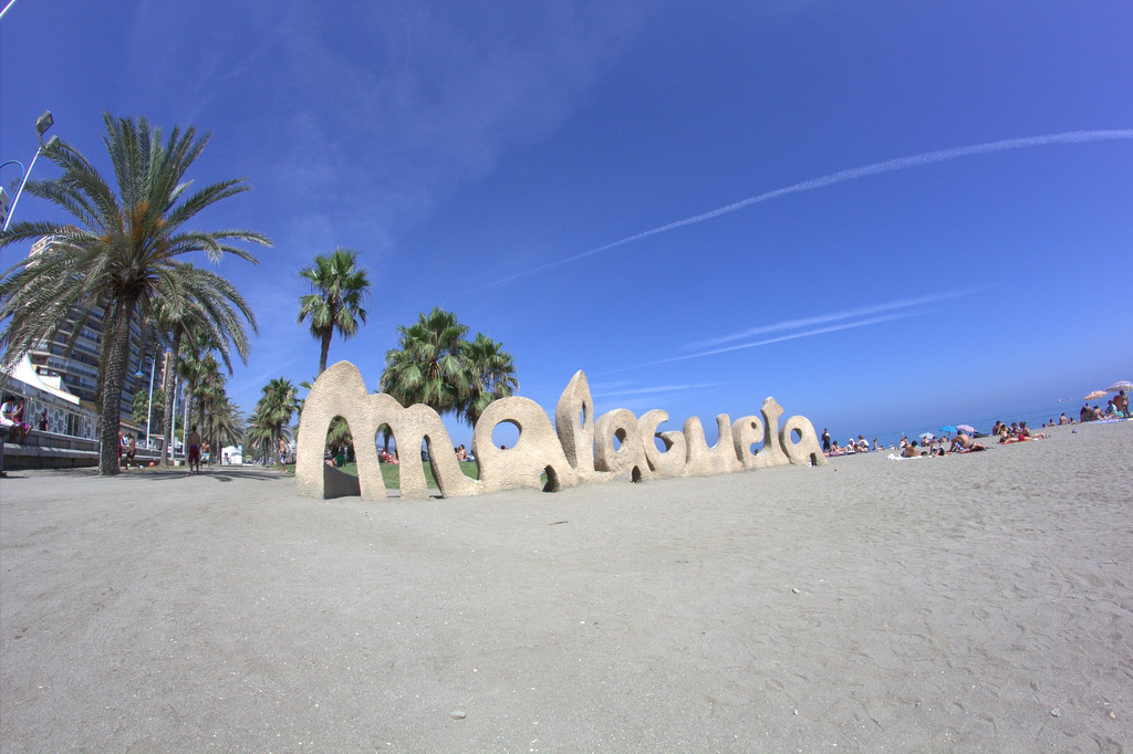 Malagueta beach, Málaga, Costa del Sol.